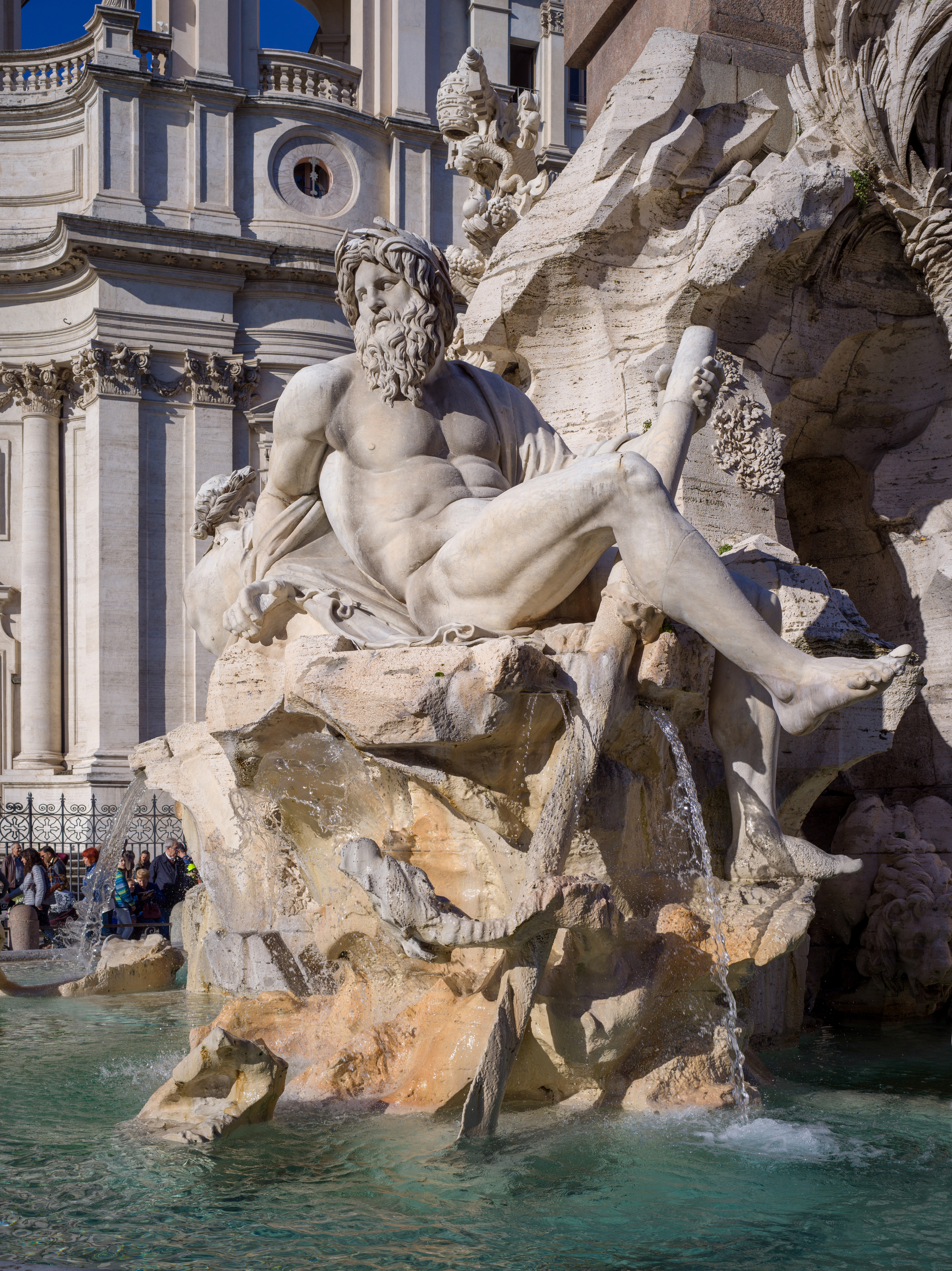 Allegory of the Ganges river in the Fountain of the four rivers on Piazza Navona in Rome.